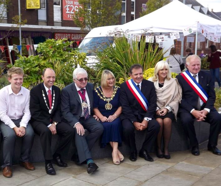 Photograph of dignitaries on Denton Town Twinning Day